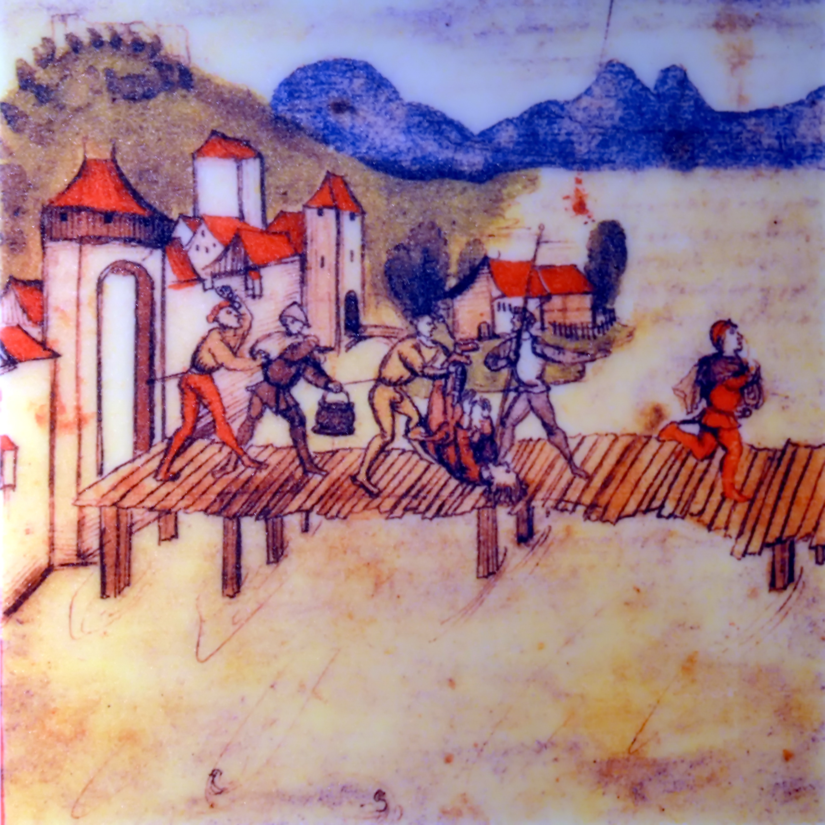 Collection of the Stadtmuseum) in Rapperswil (Switzerland)